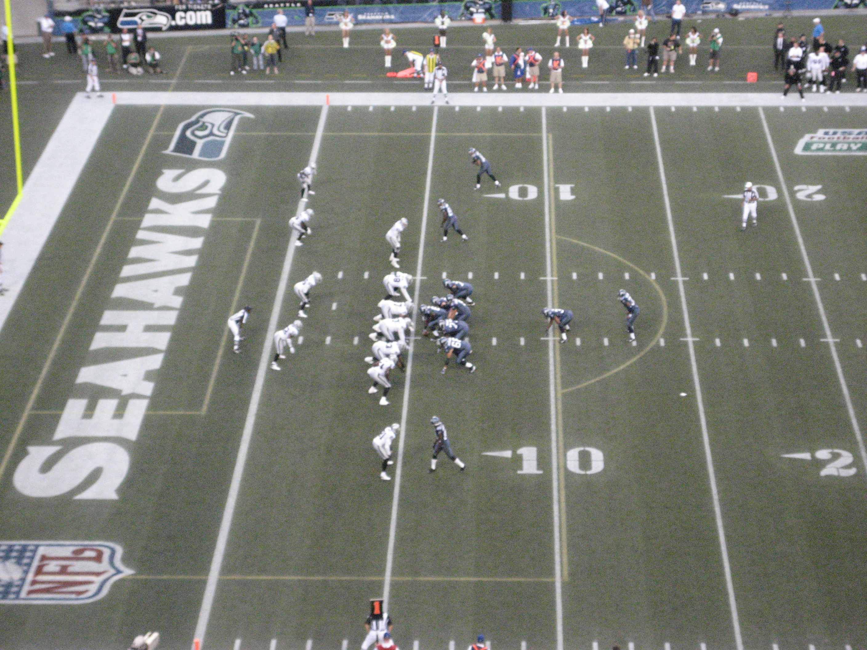 The Seahawks' offense in the Raiders' redzone.